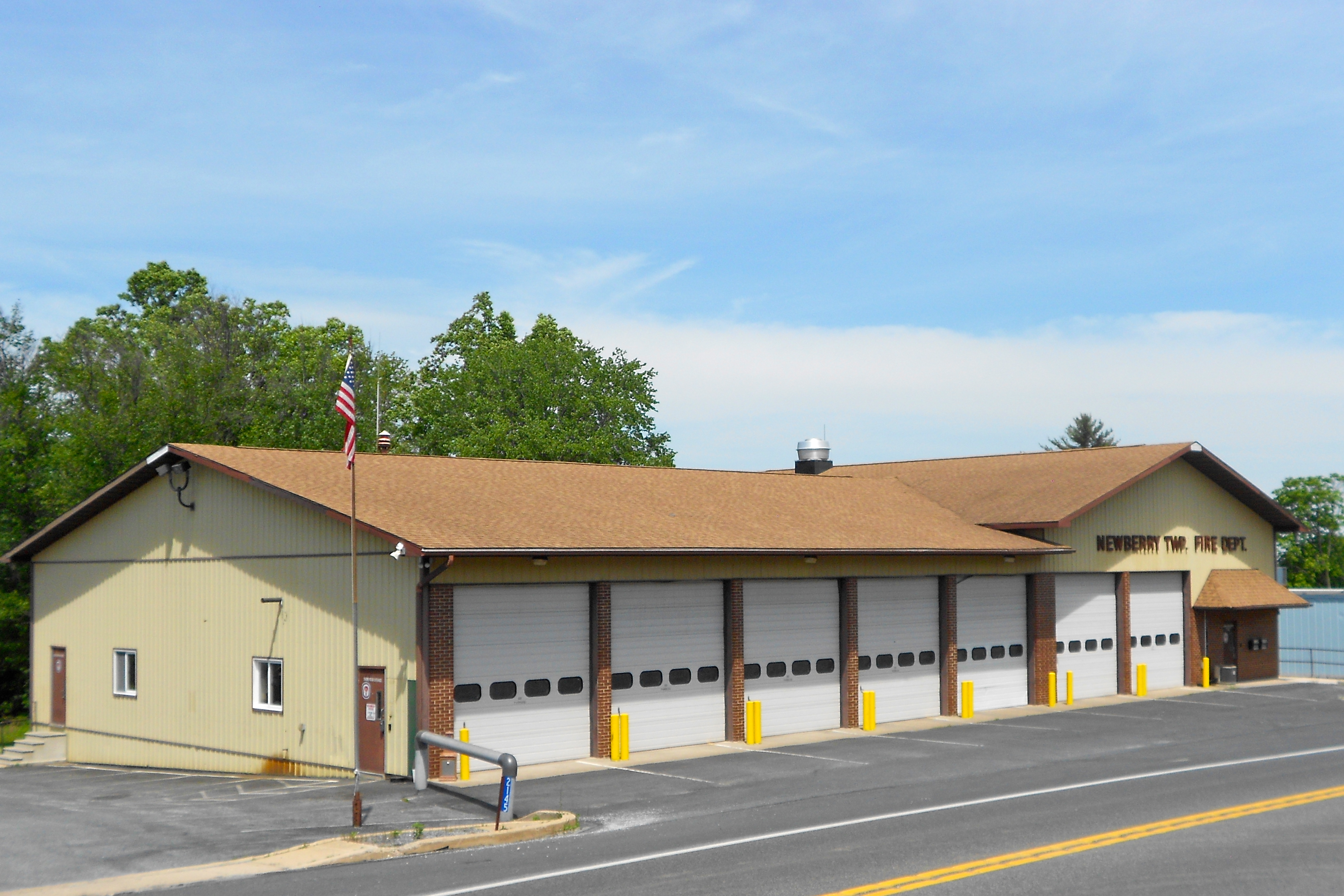 Newberry Township Fire Department in Newberrytown, York County, Pennsylvania